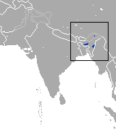 Assam Mole Shrew (Anourosorex assamensis) range